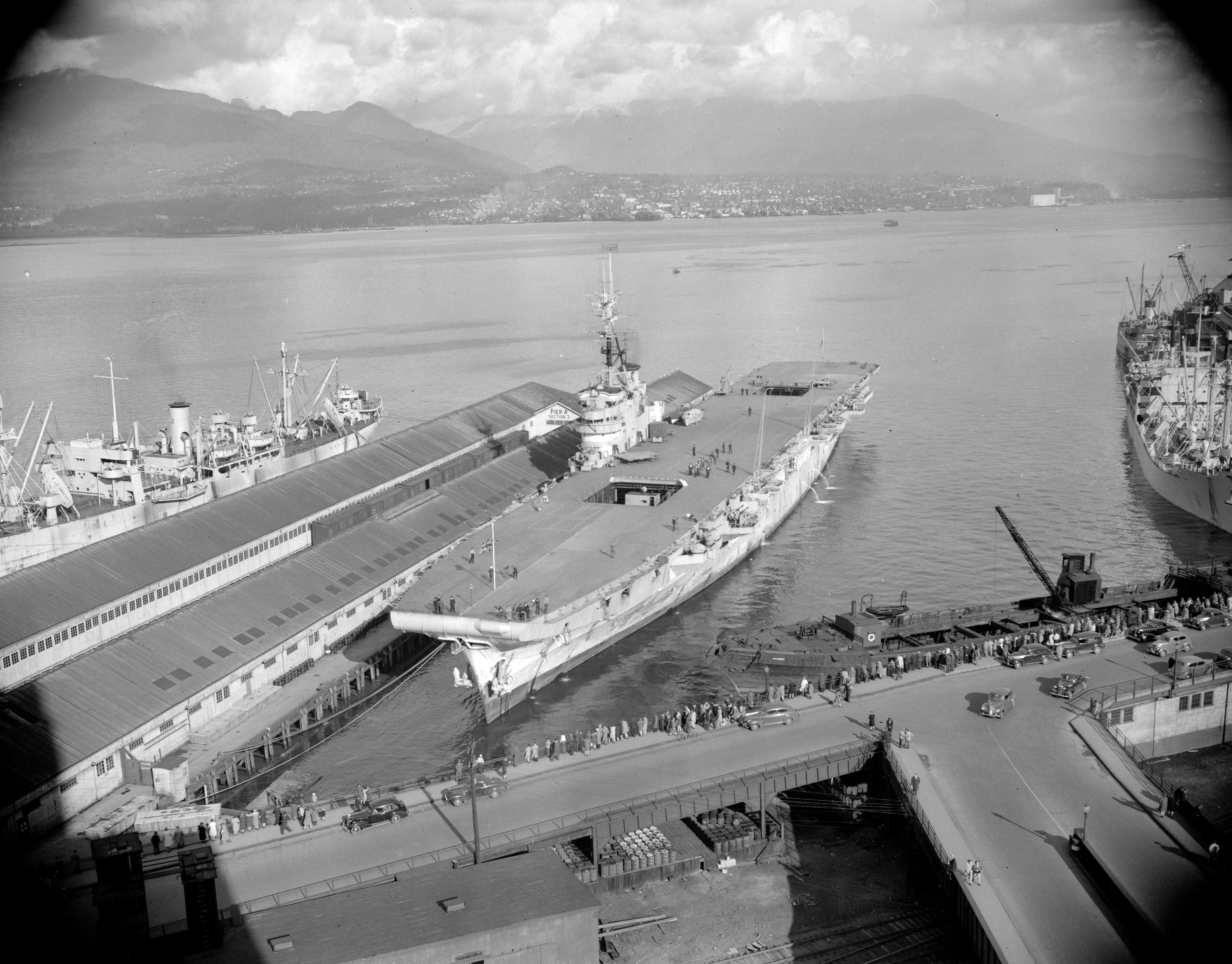 Original caption: H.M.C.S. Warrior at dock